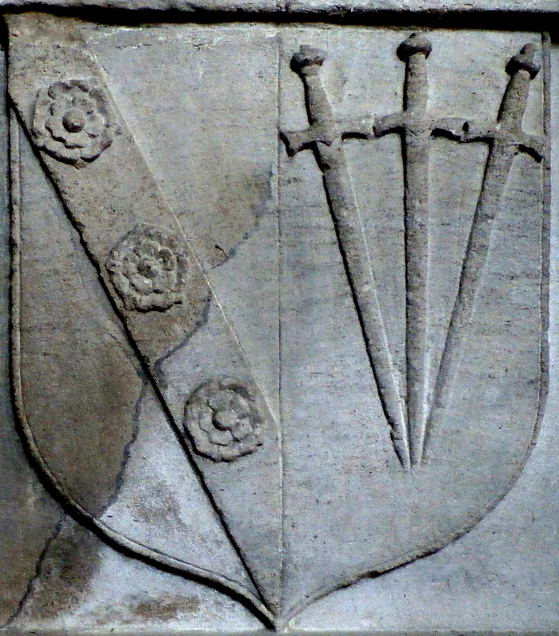 Detail from monument to Robert Cary (d.1586) of Clovelly, Devon. South wall of chancel, All Saints Church, Clovelly. On the base of the north side are shown two relief sculpted heraldic escutcheons, this one showing Cary impaling Sable, three swords pilewise points in base proper pomels and hilts or (Poulett, for his grandfather Sir William I Cary (1437-1471), of Cockington, who married Elizabeth Poulett, a daughter of Sir William Poulett of Hinton St George, Somerset (ancestor of Earl Poulett).